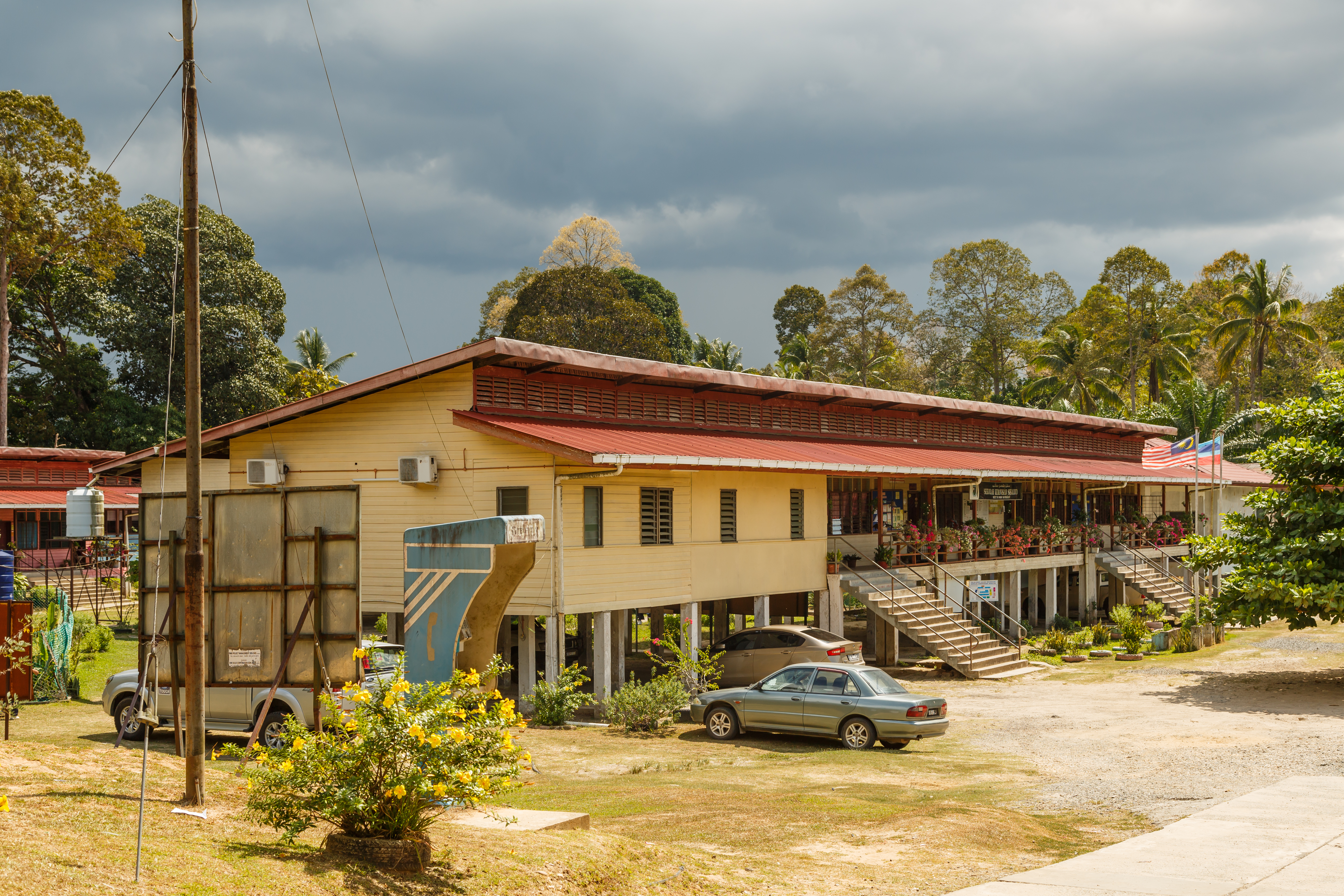 Segaliud, Sabah: Sekolah Kebangsaan Segaliud, a primary school in Sandakan District